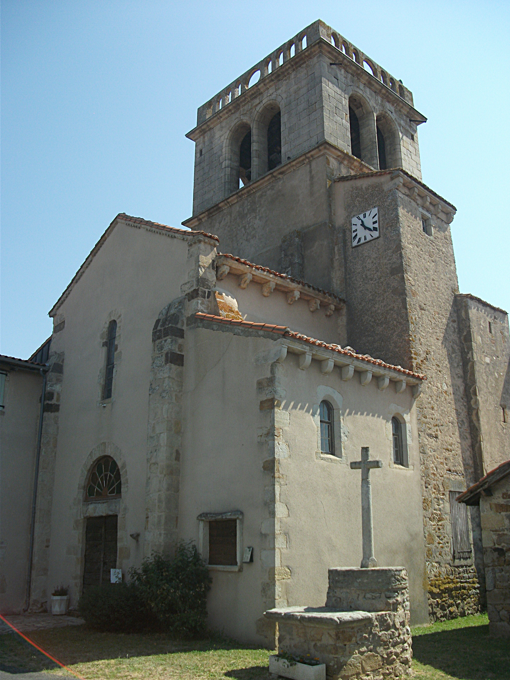 Church of Bongheat, Puy-de-Dôme, Auvergne-Rhône-Alpes, France. [14724]